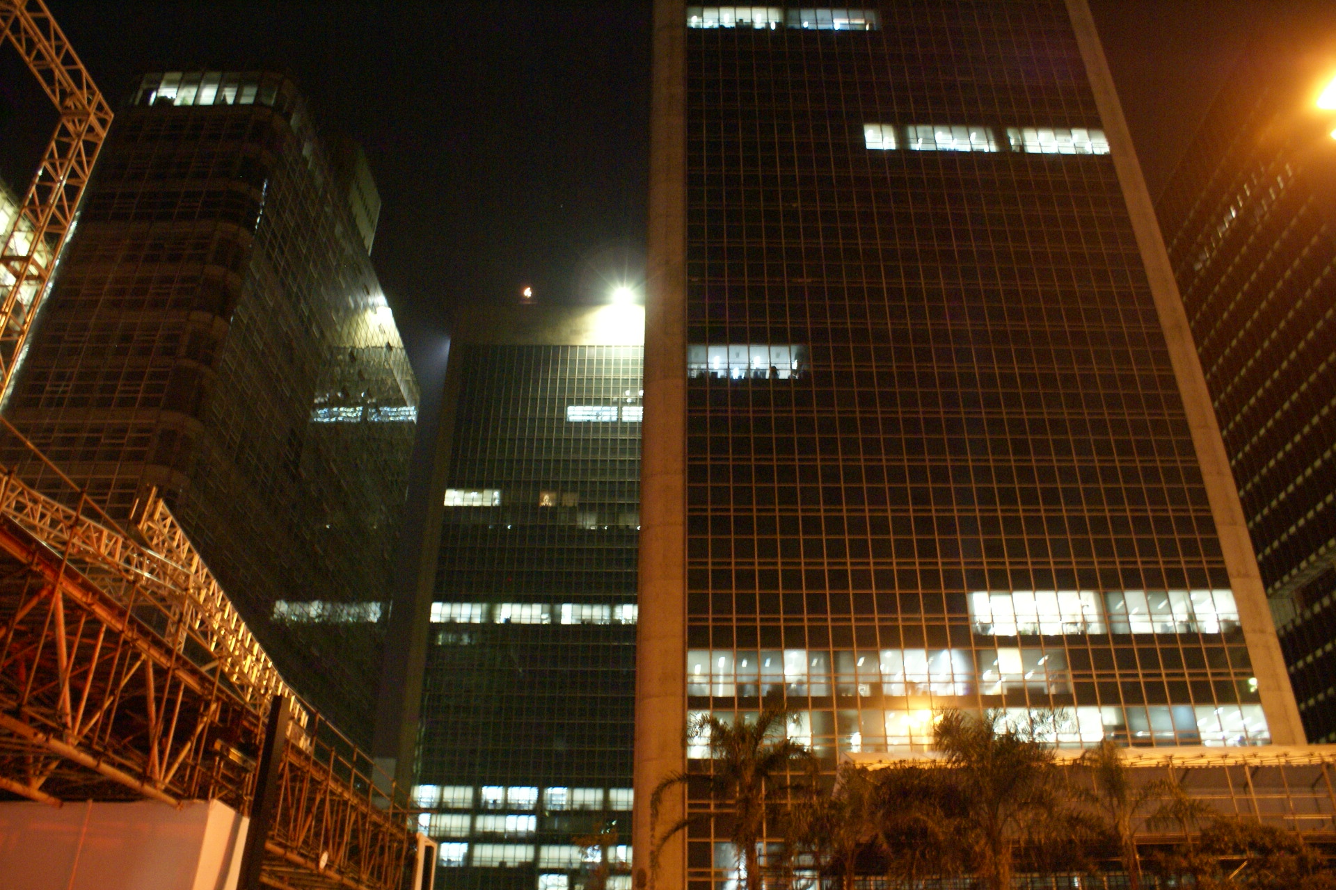 Cetenco Plaza Complex in Paulista Avenue, São Paulo City, Brazil.